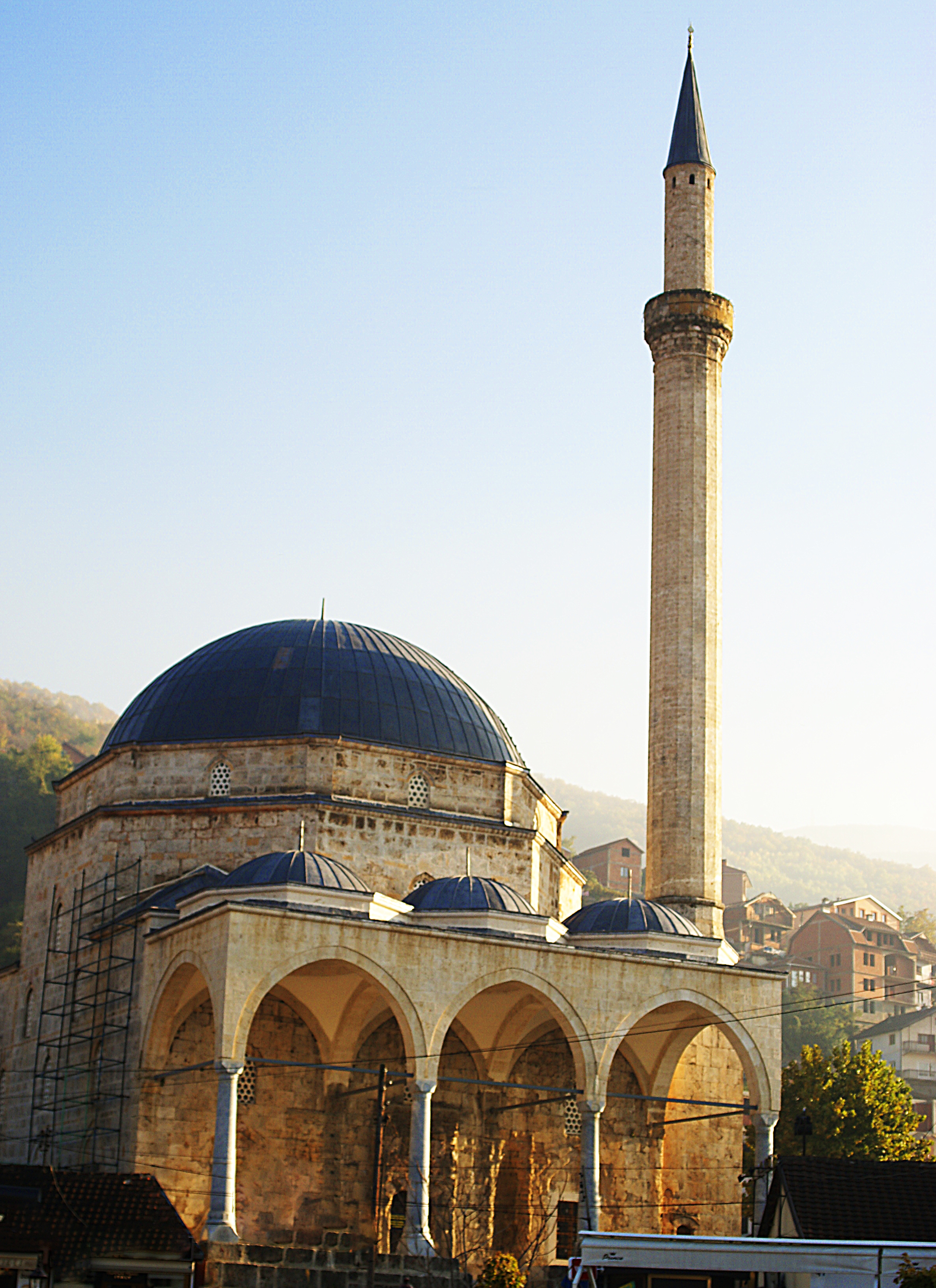 Prizren's most prominent mosque, towering over Shadërvan square from a raised level, is from 1615. Lovers of Ottoman architecture admire it for its strength, compactness, gracefulness and elegance, and know that the type of architecture represents a rarity in Islamic art. The mosque is delicately decorated with geometrical designs, still life paintings and curtains. A lengthy restoration project that ended in 2010 saw the building completely renovated. It was believed that the stones used to build the mosque originated from the Holy Archangels' Monastery, and in 1919 Serbian authorities started to dismantle the mosque in order to rebuild the monastery. The porch stones were removed, with the columns thrown in the river, but mass protests stopped the demolition, and the porch was finally rebuilt in 2009.